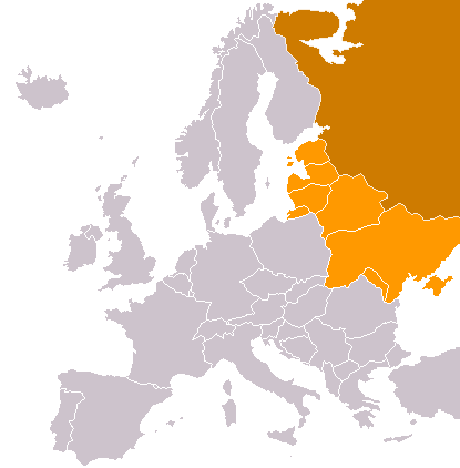 Eastern Europe according to CIA Factbook